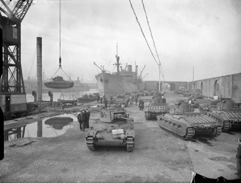 British Tanks 1939-45 Matilda tanks being loaded onto ships at Liverpool docks for shipment to the Soviet Union, 17 October 1941.